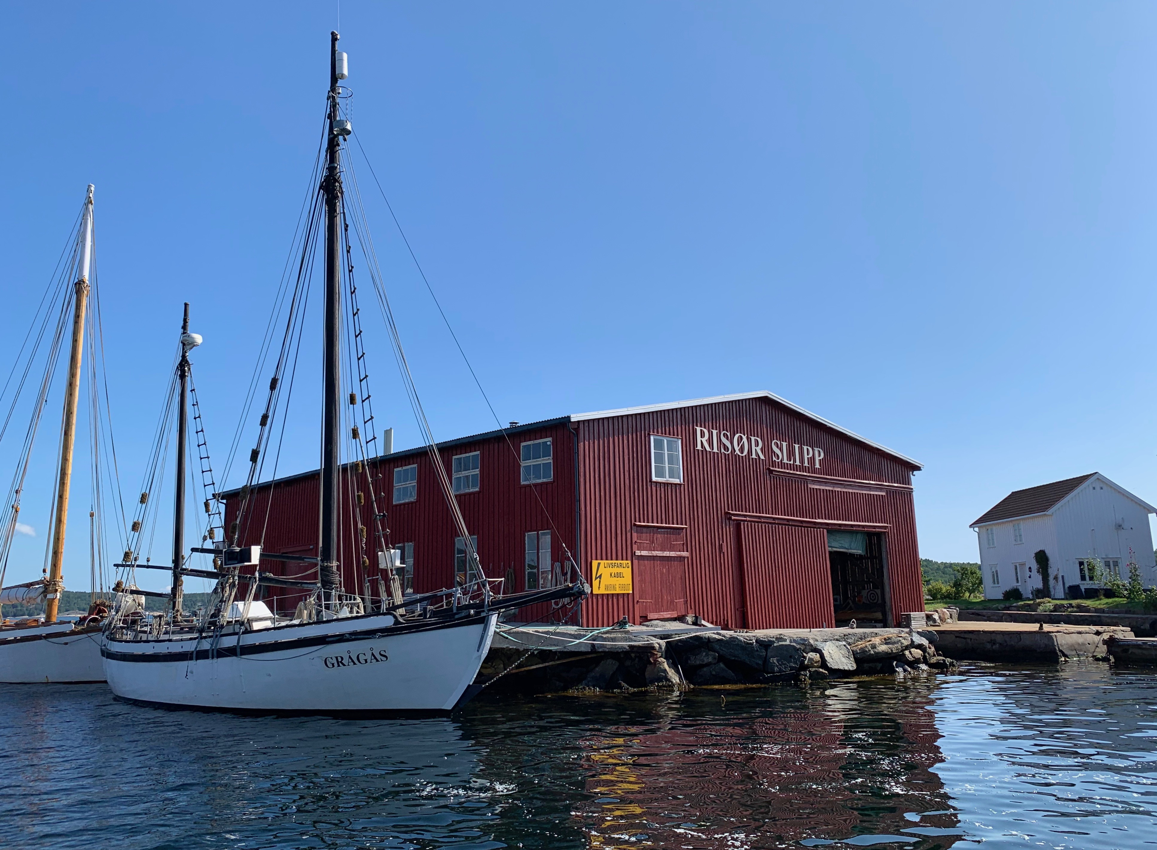 Risør slipp, Risør, Norway